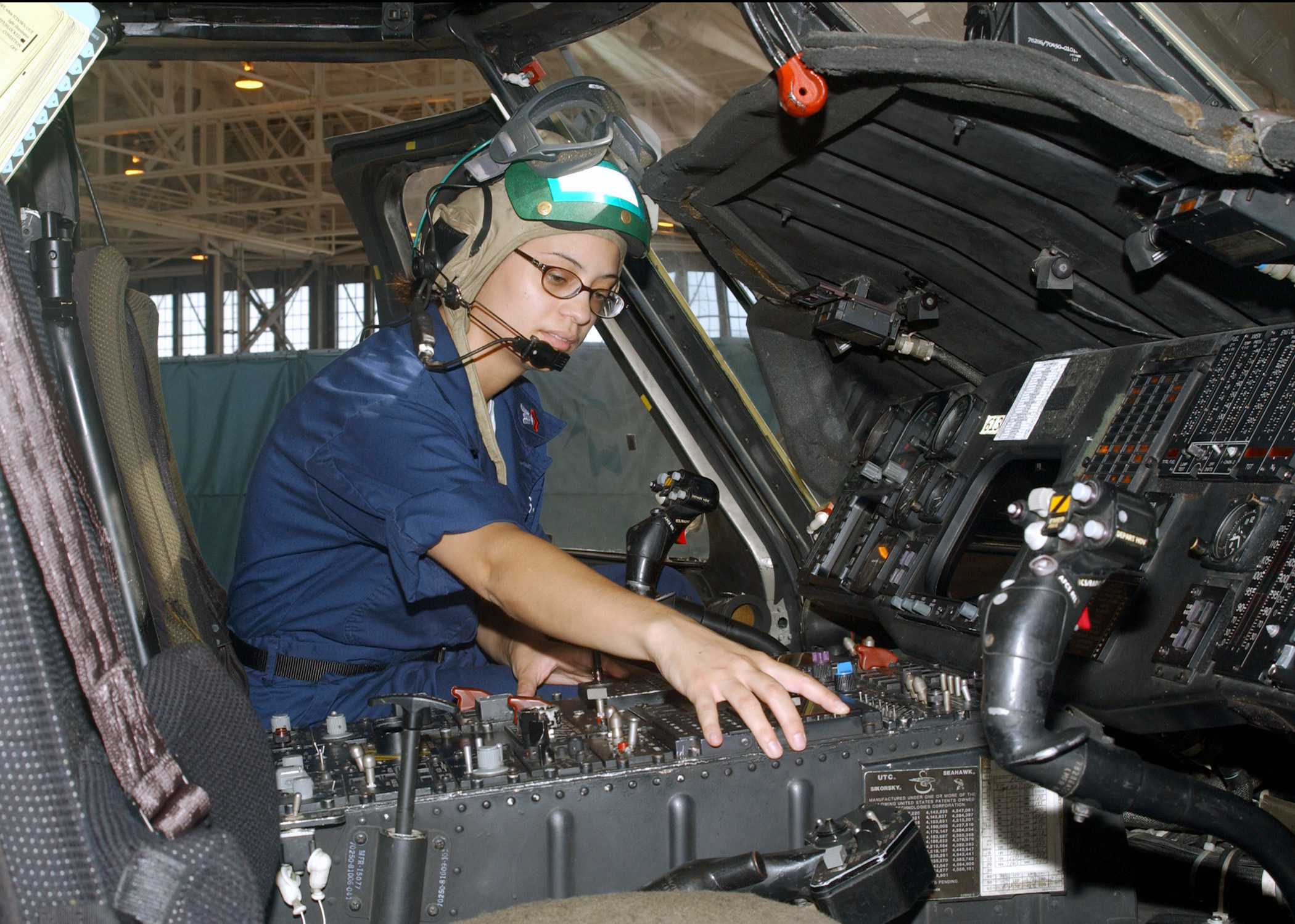 Naval Air Station Jacksonville, Fla. (Jul. 8, 2003) -- Aviation Electronic Technician 2nd Class Gina E. Hossen from Rochester, N.J. troubleshoots a communication system in the cockpit of a helicopter. U.S. Navy photo by Photographer's Mate 3rd Class Clarck Desire. (RELEASED)